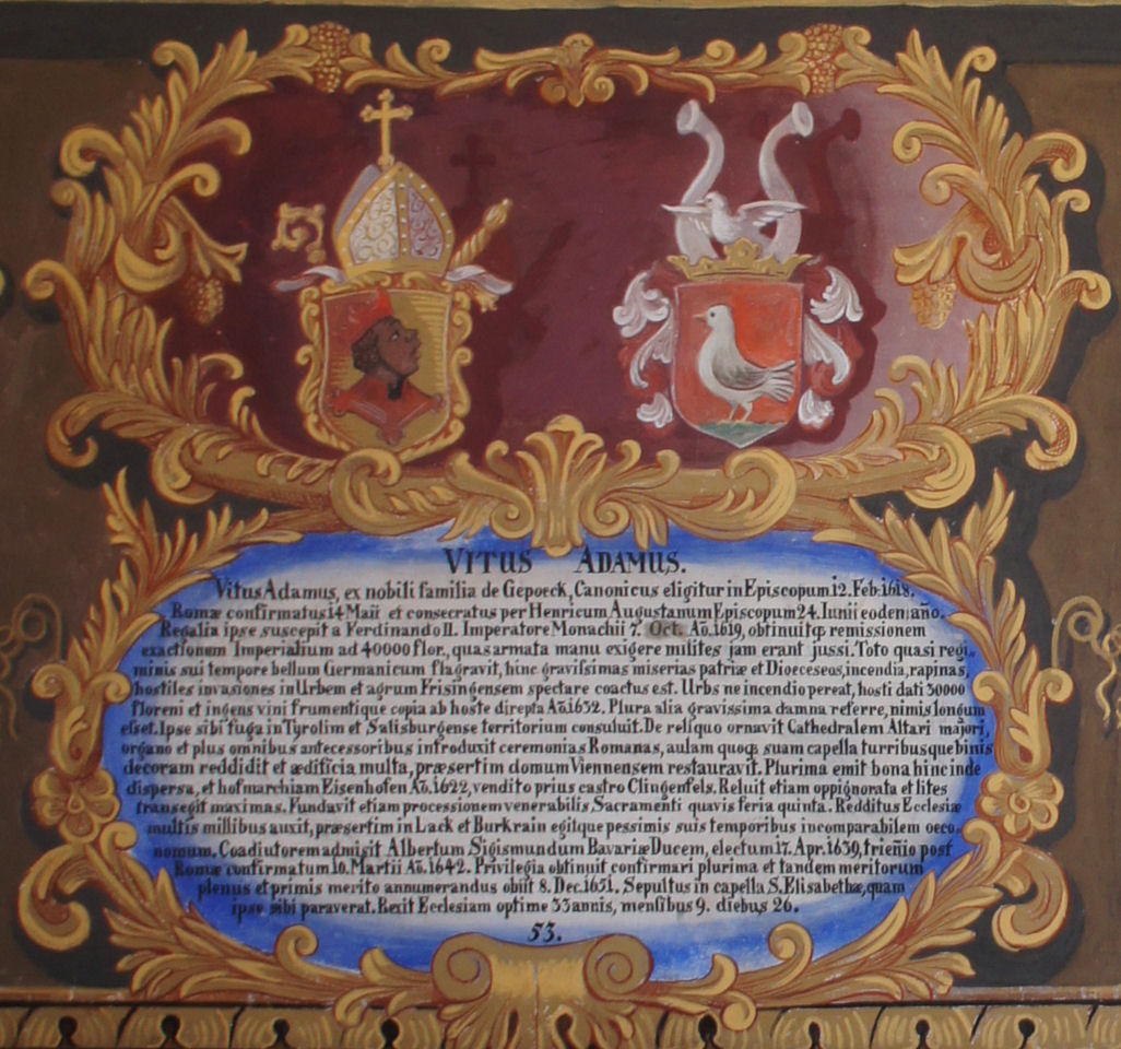 Wappentafel von Veit Adam von Gepeckh, Fürstbischof von Freising, im Fürstengang zwischen Fürstbischöflicher Residenz und Freisinger Dom. Links das geistliche, rechts das persönliche Wappen, darunter ein lateinischer Text mit kurzer Biographie.